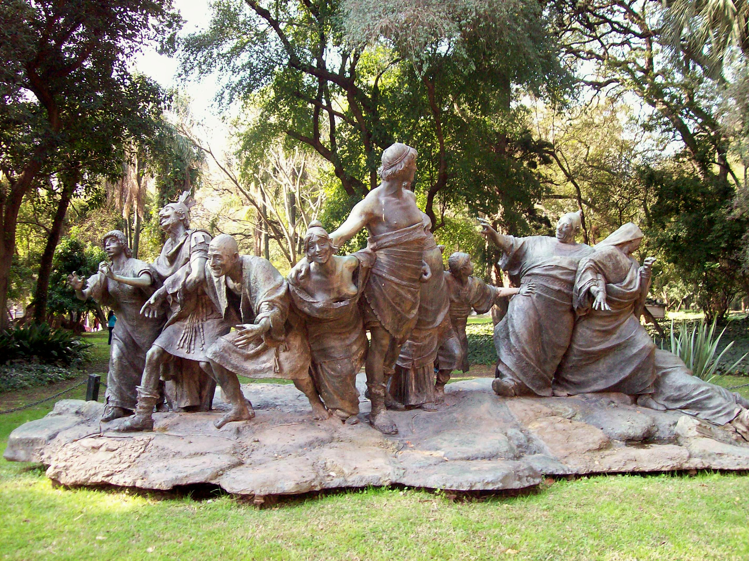 Saturnalia, sculptor Ernesto Biondi, 1899. A bronze copy of 1909, the Botanical Garden of Buenos Aires. Original in Galleria Nazionale d'Arte Moderna in Rome. The original was shown in the Exposition Universelle (1900) in Paris (Charles Ponsonailhe: La Sculpture étrangère à la décennale in L'Exposition de Paris, 1900, Paris, Montgrédien Ed., S. 259)